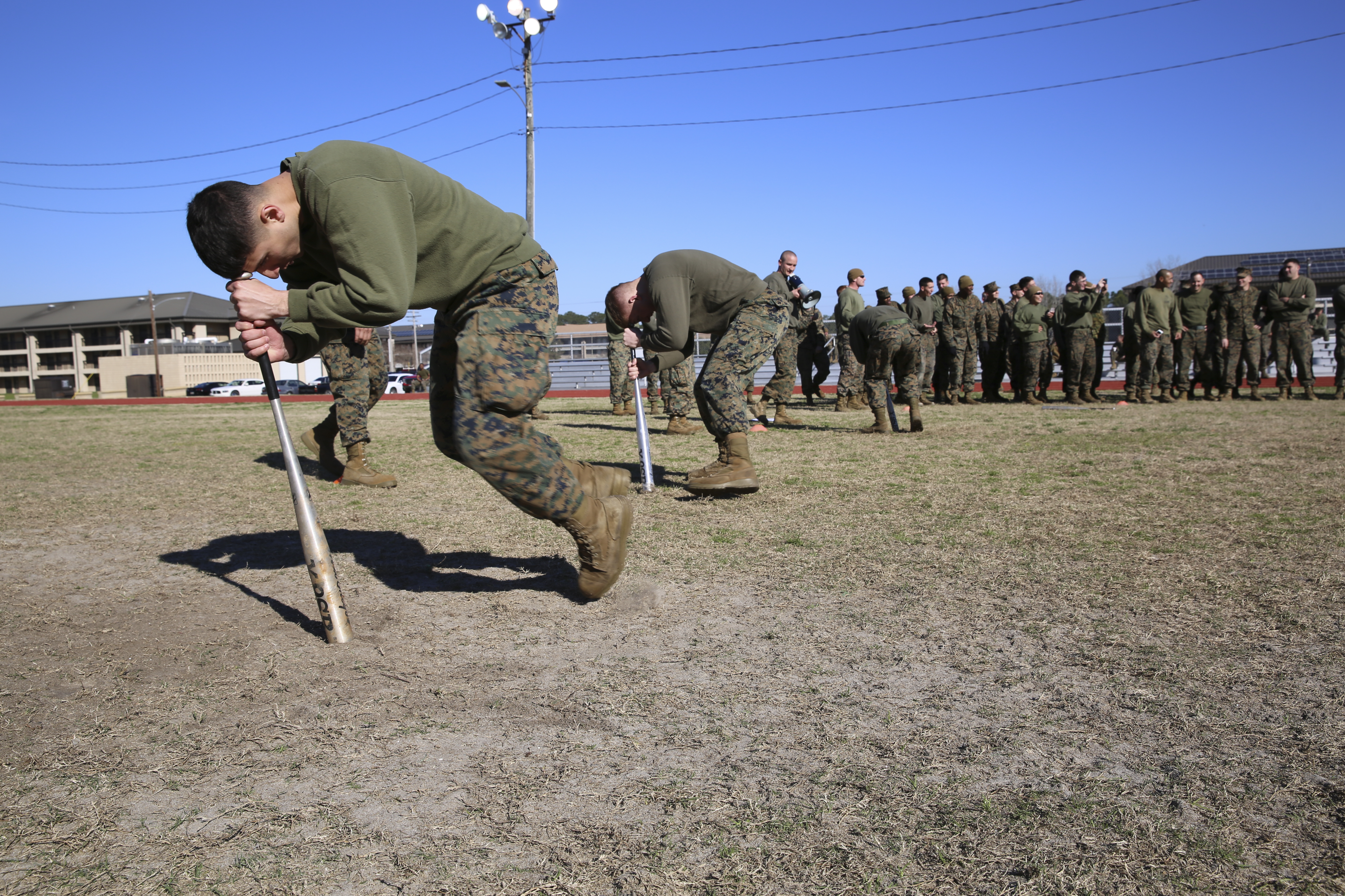 Marines with Marine Aviation Logistics Squadron 31 compete at Dizzy Izzy, spinning around a baseball bat 20 times and sprinting during a field meet, Feb. 28. Marines competed in a variety of activities, with Ordnance placing first overall.